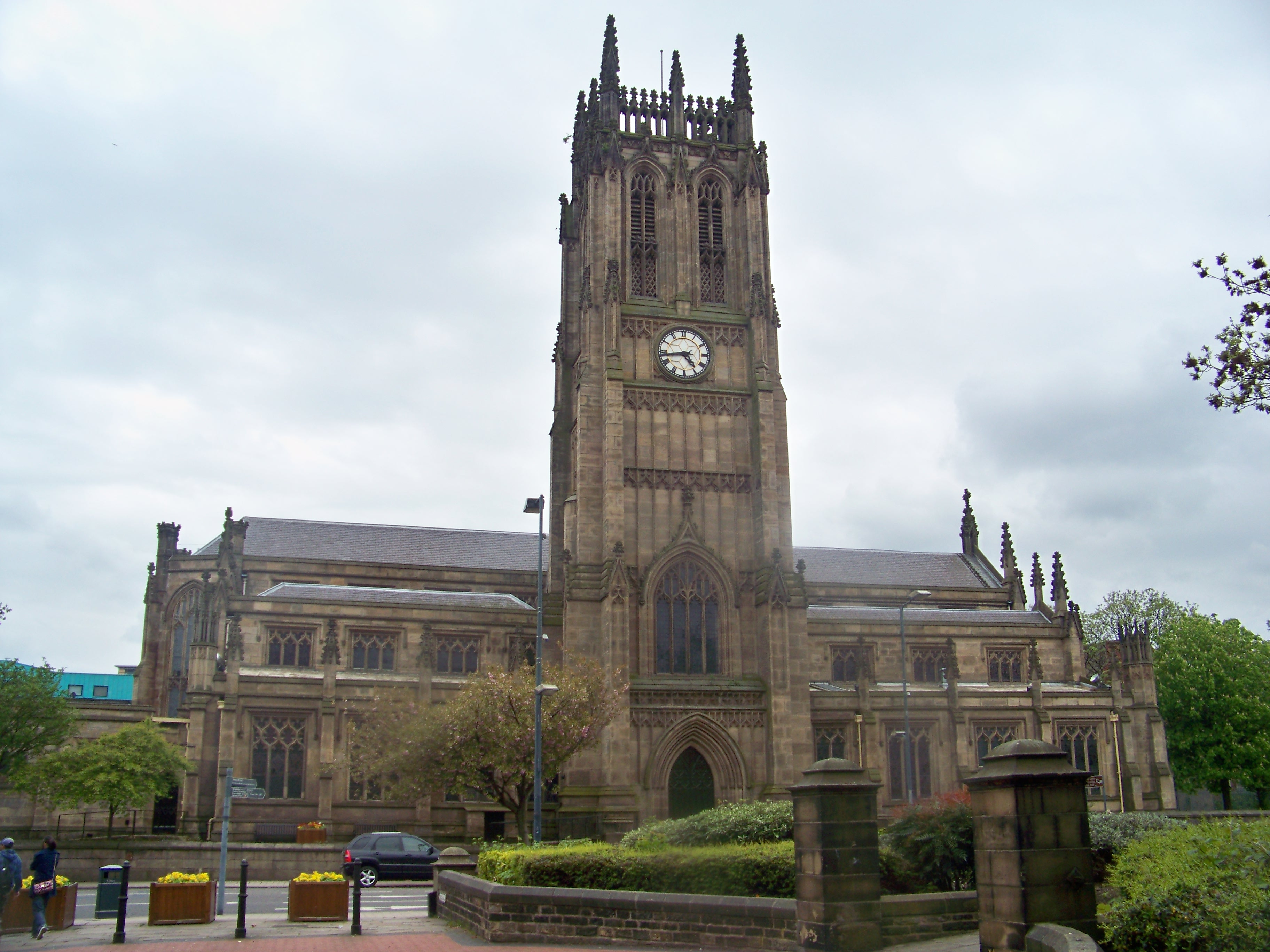 Leeds Parish Church, from 'Church Lane', a pedestrianised thoroughfare at the opposite side of Kirkgate. Taken on the afternoon of Monday the 12th of May 2010. The church was renamed Leeds Minster on 2nd of September 2012.